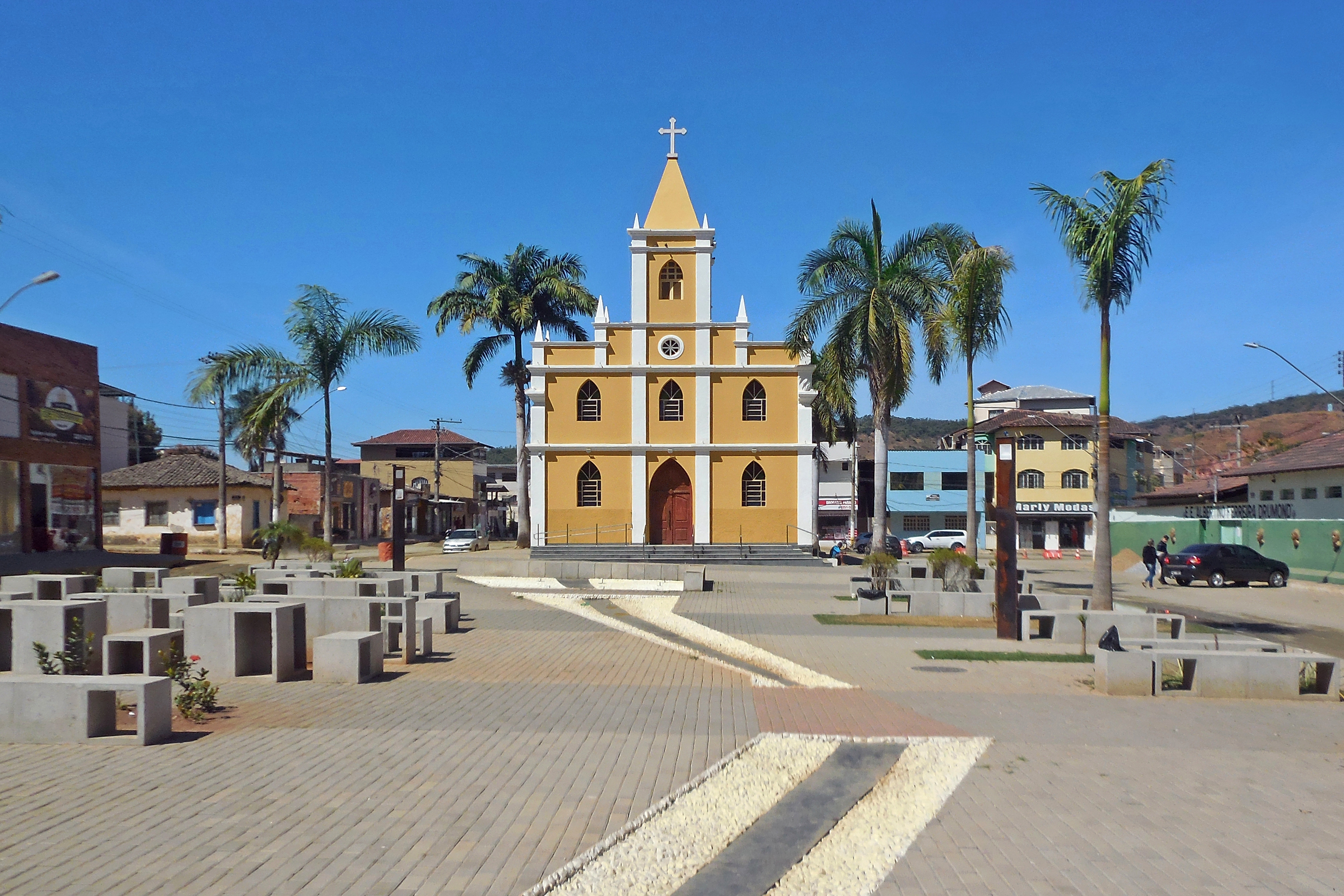 Praça da Matriz e Igreja Matriz de Santana, em Santana do Paraíso, Minas Gerais, Brasil. Cultural property Q67025145, Santana do Paraíso, Minas Gerais, Brazil Q67025145, P727